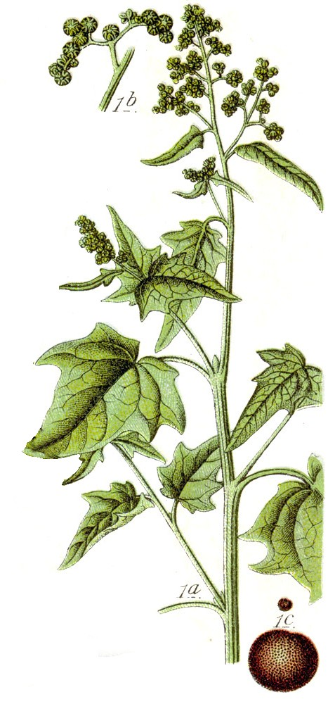 Chenopodium hybridum L., syn. Chenopodium stramoniifolium Chev. Original Caption: 1. Gänsefuss, Chenopodium stramonifolium 2. Stadt-Melde, Chenopodium urbicum